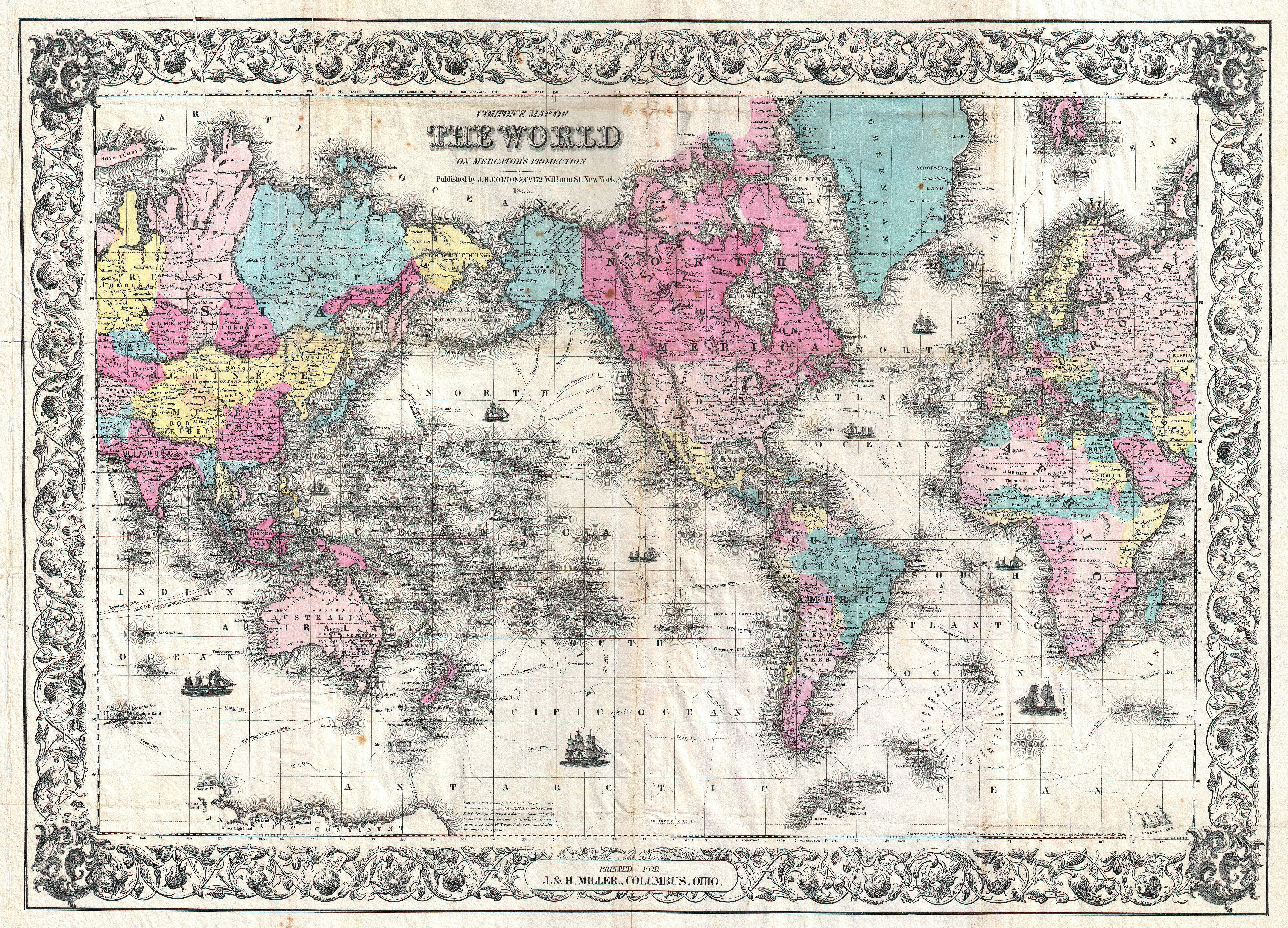 A rare and extremely attractive folding map of the world by J. H. Colton. This map, comprising the entire world, was prepared by Colton in 1852 for issue in J. & H. Miller publication in the 1855 edition of Blake’s Volume of the World… . In preparing this map, Colton reduced and embellished his important 1848 wall map of the World. Centered on America, map depicts the whole of the known world in 1855. Shows Antarctica only partially. Illustrates the routes traveled by important explorers including Cook, Vancouver, Perouse, the U.S. Ship Vincennes, and others. Decorated with eight engravings of sailing and steam ships. Surrounded by an elaborate decorative floral motif border.